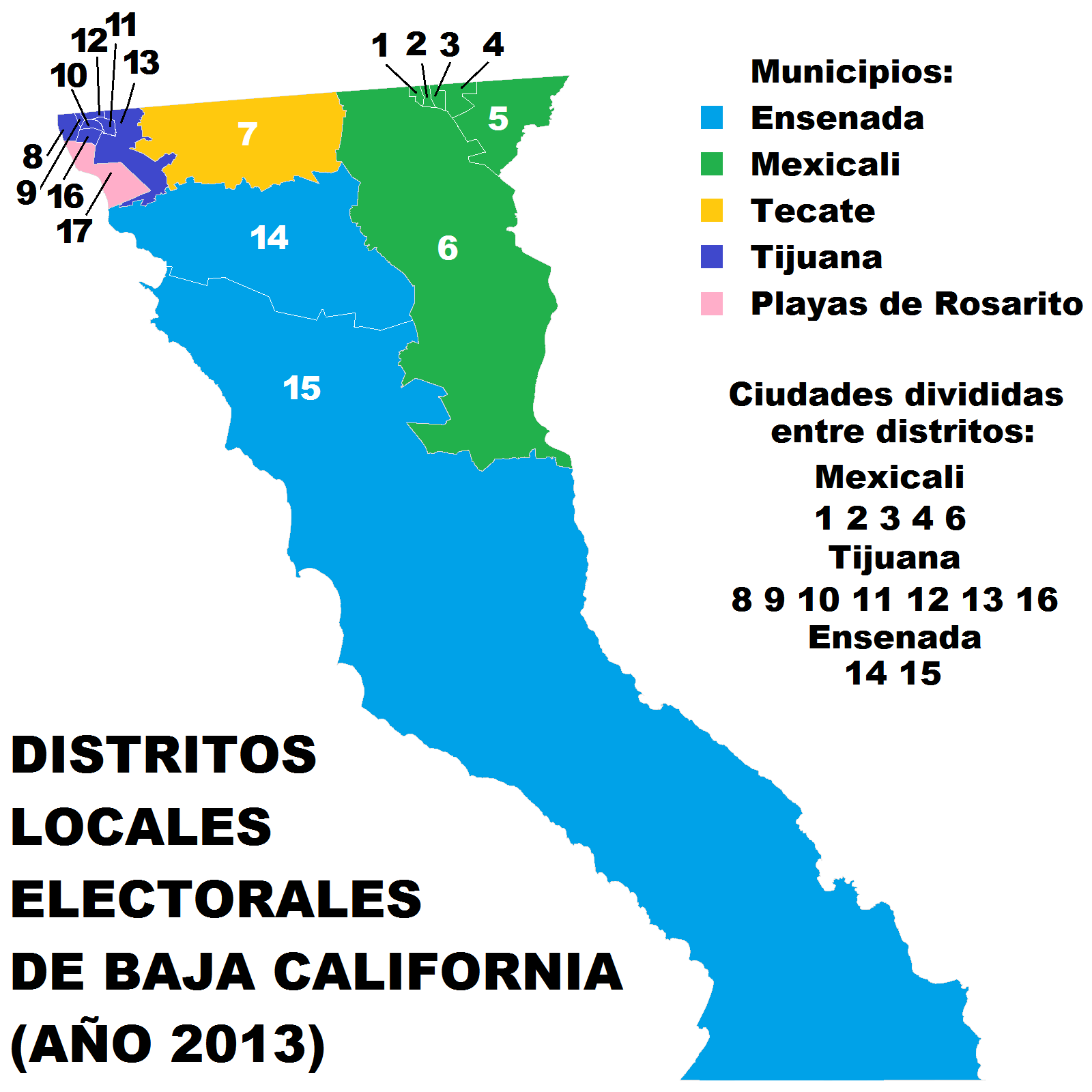 Mapa de los distritos establecidos por el Instituto Electoral y de Participación Ciudadana de Baja California, para elecciones de diputados locales, ayuntamientos y gobernador. Estos distritos son vigentes al año 2013 y se usarán para las elecciones celebradas en ese año.